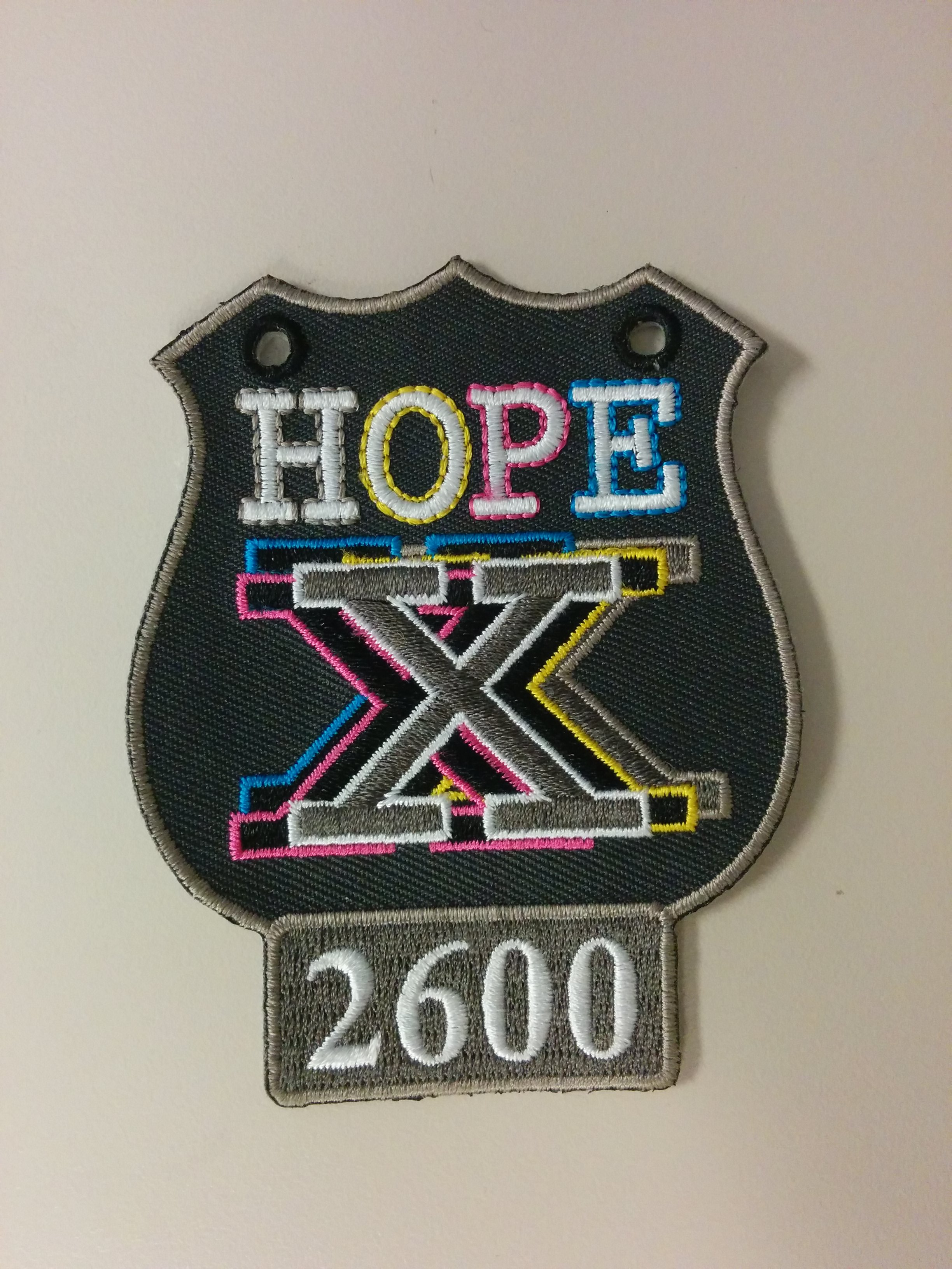 This is the badge that was issued at the tenth Hackers On Planet Earth (HOPE) conference.